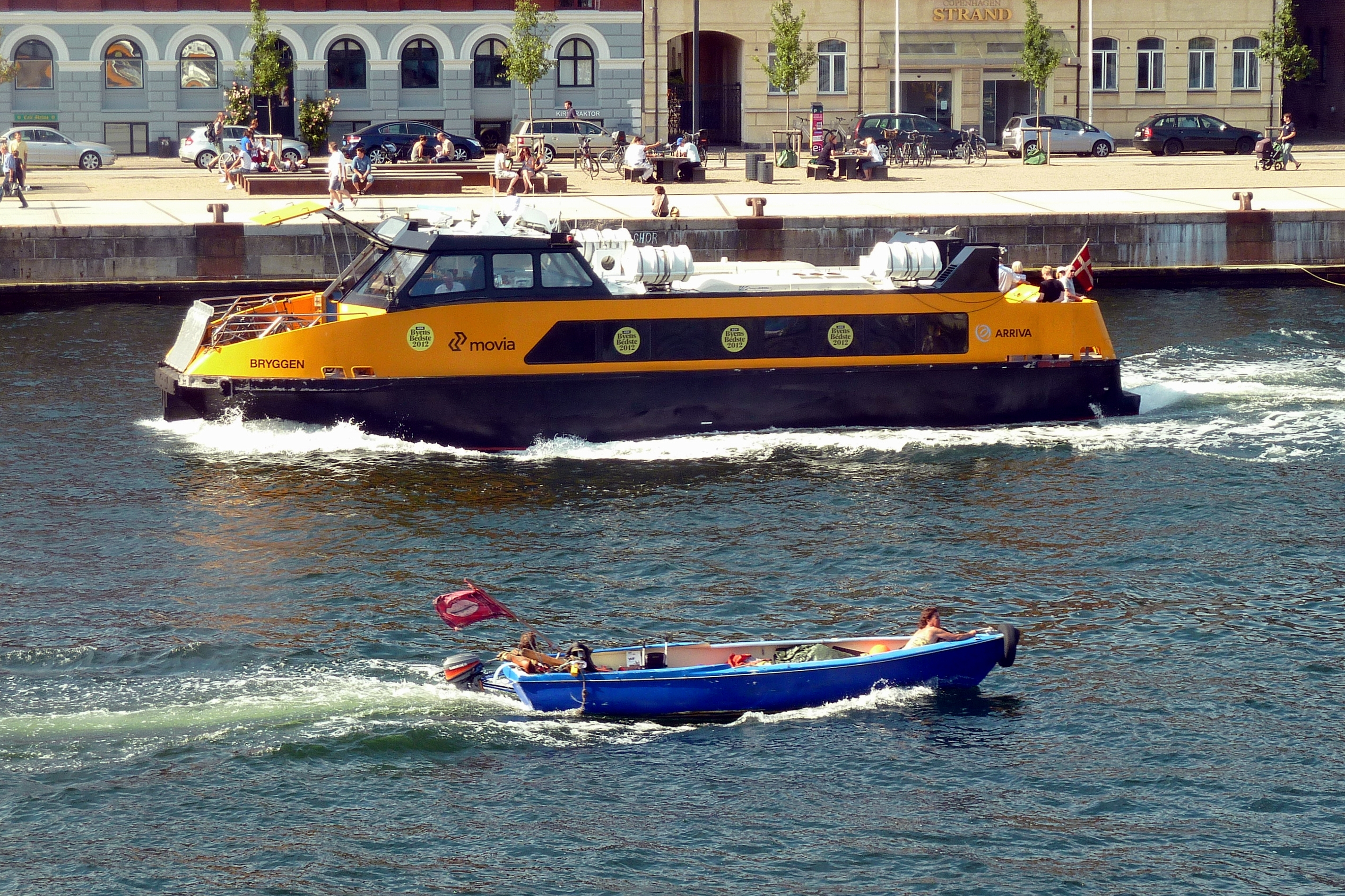 the cheapest boat ride, and it's fast!